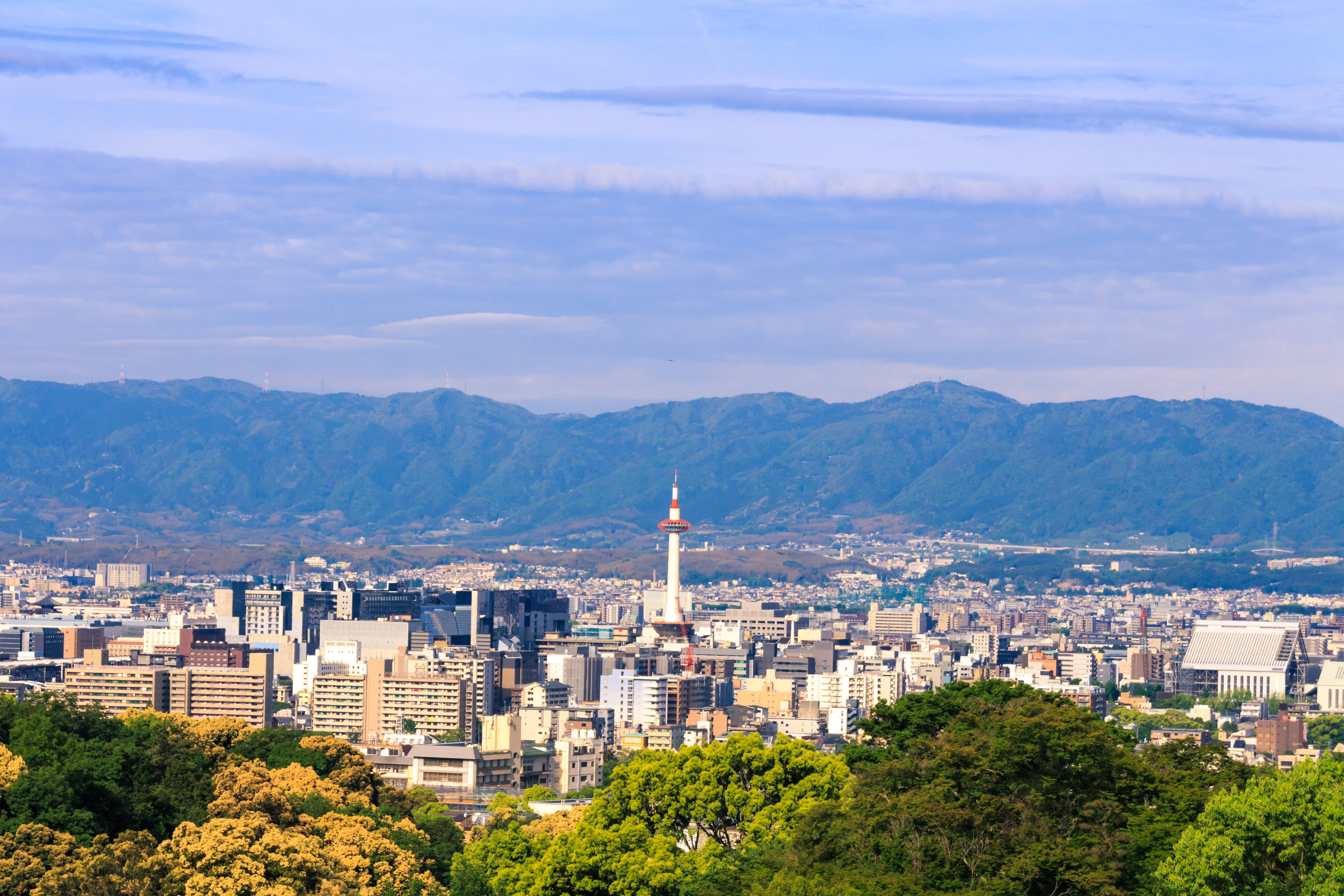 With Kyoto Tower in the center, this view of Kyoto shows the city center and the distant mountains behind it. Most cities in Japan, even large ones like Tokyo has a wonderful mixture of urban areas and nature.